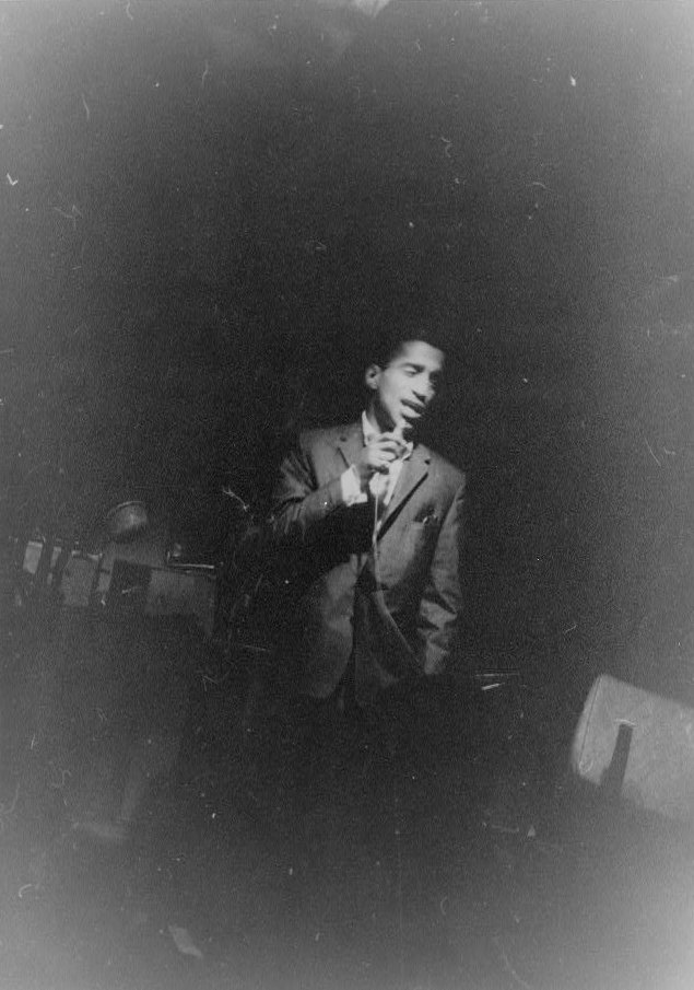 Portrait of Sammy Davis, Jr., at an Urban League benefit at Birdland, 1956 June 10.